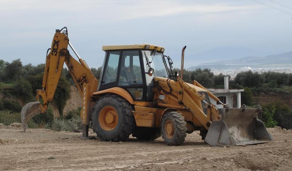 JCB 3CX backhoe loader